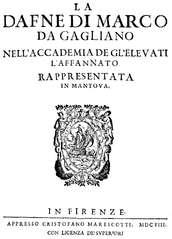 Dafne-Gagliano-cover of score 1608. La Dafne (Daphne) is an early Italian opera, written in 1608 by the Italian composer Marco da Gagliano from a libretto by Ottavio Rinuccini.